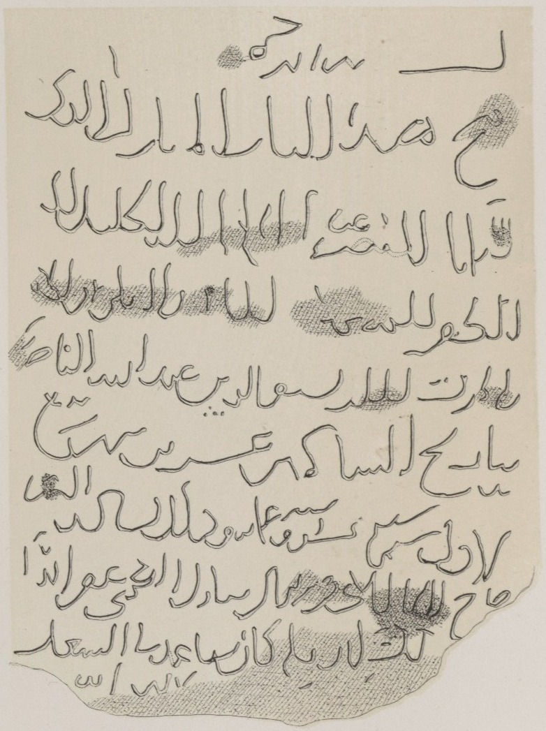 Drawing of then stela commemorating the conversion of the throne hall of Dongola, the capital of the Nubian kingdom of Makuria, into a mosque. Dated to 1317.